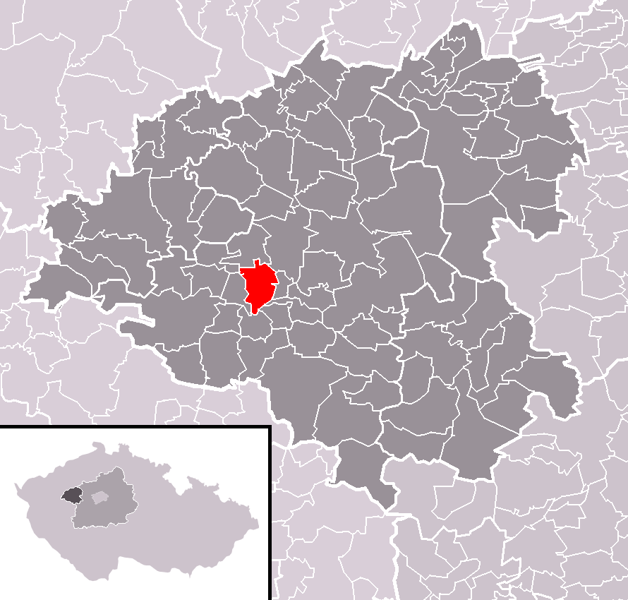 Location of Petrovice municipality within Rakovník District and (identical) administrative area of Rakovník as a Municipality with Extended Competence.